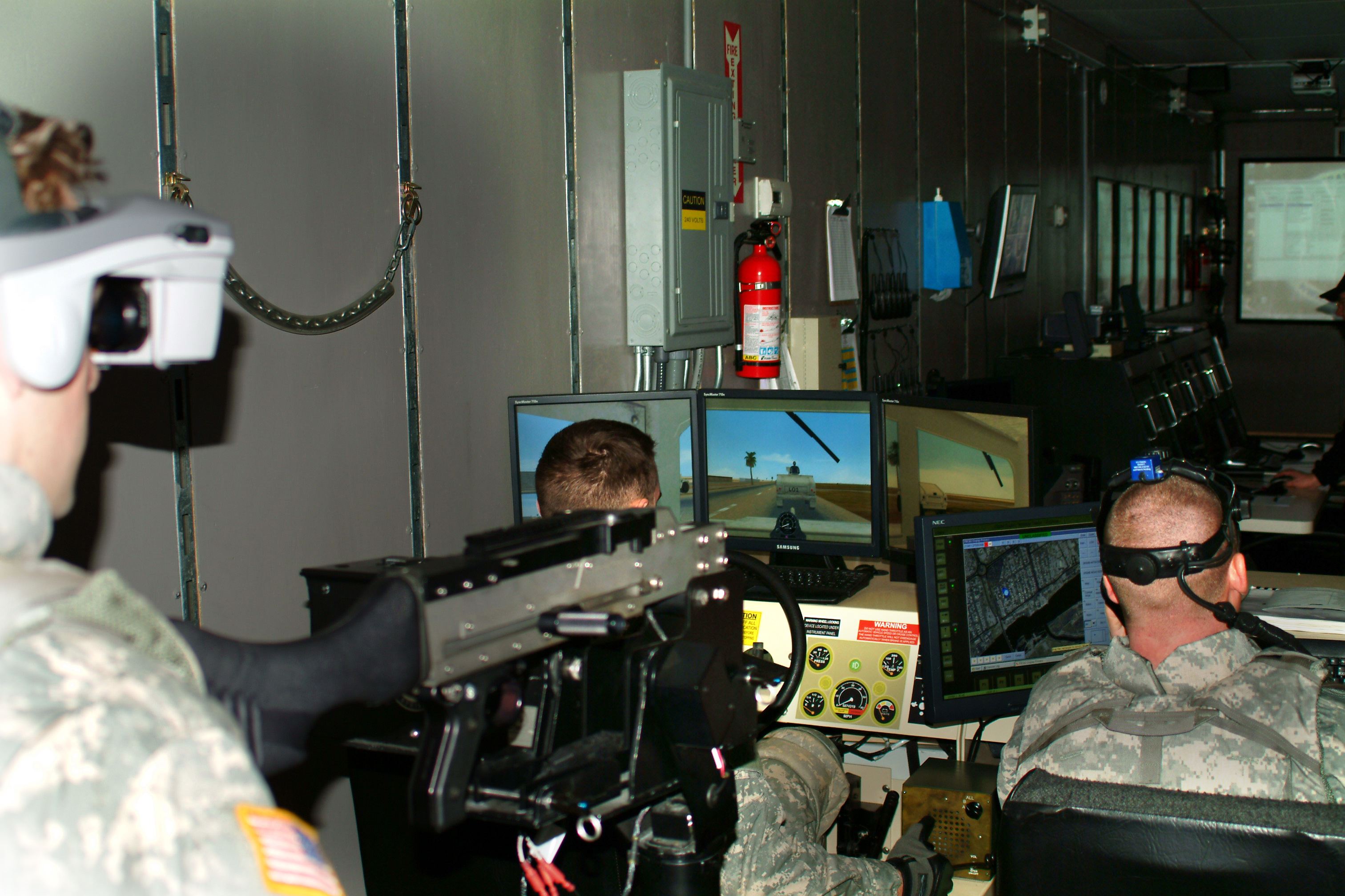 U.S. Army Soldiers with 6th Infantry Regiment, 2nd Brigade Combat Team, 1st Armored Division conduct virtual convoy training in Baumholder, Germany, Feb. 21, 2008. (U.S. Army photo by Ruediger Hess) (